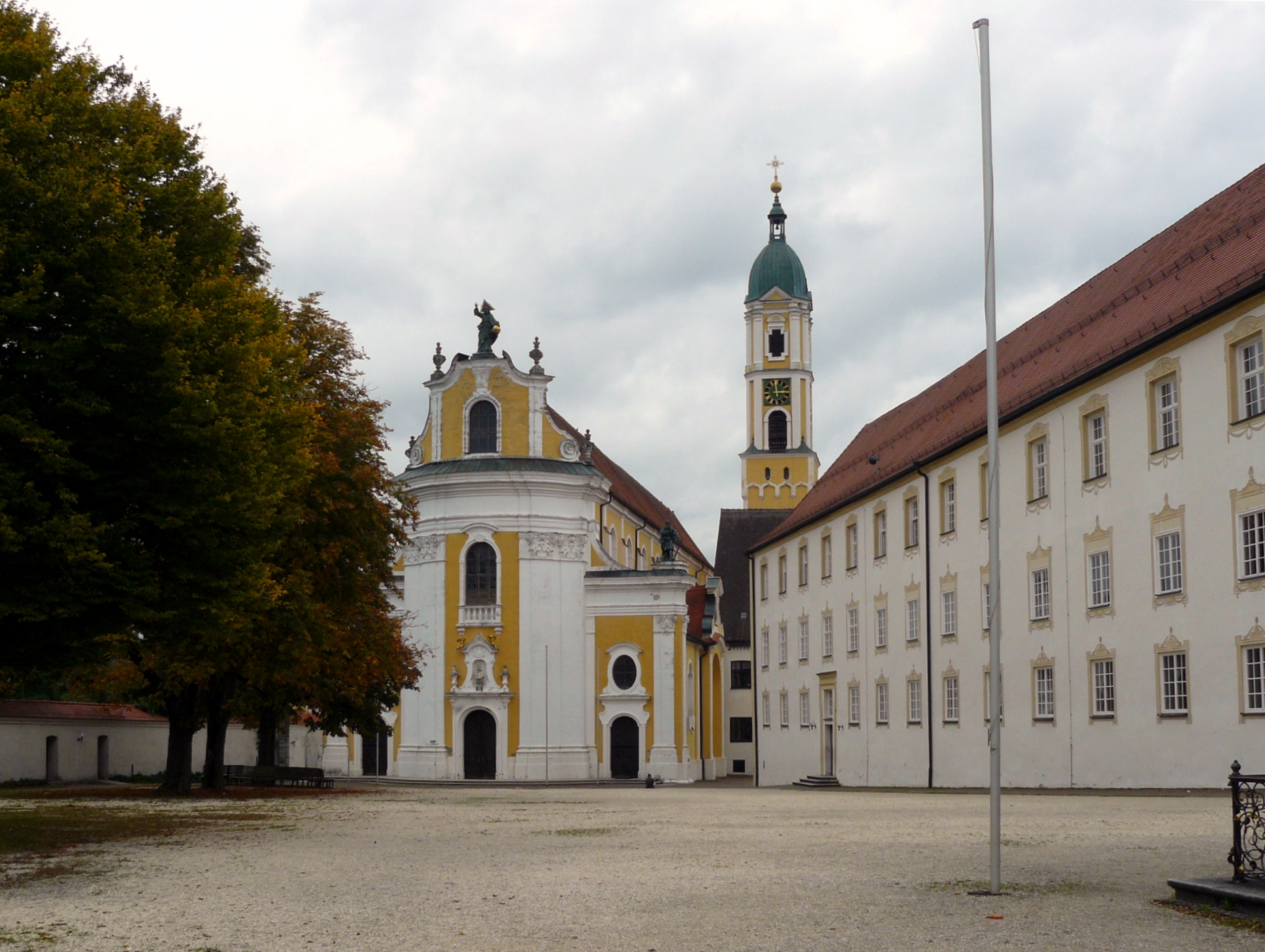 Former abbey church St George in Ochsenhausen